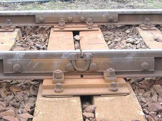 supported rail joint with bridge sole-plate